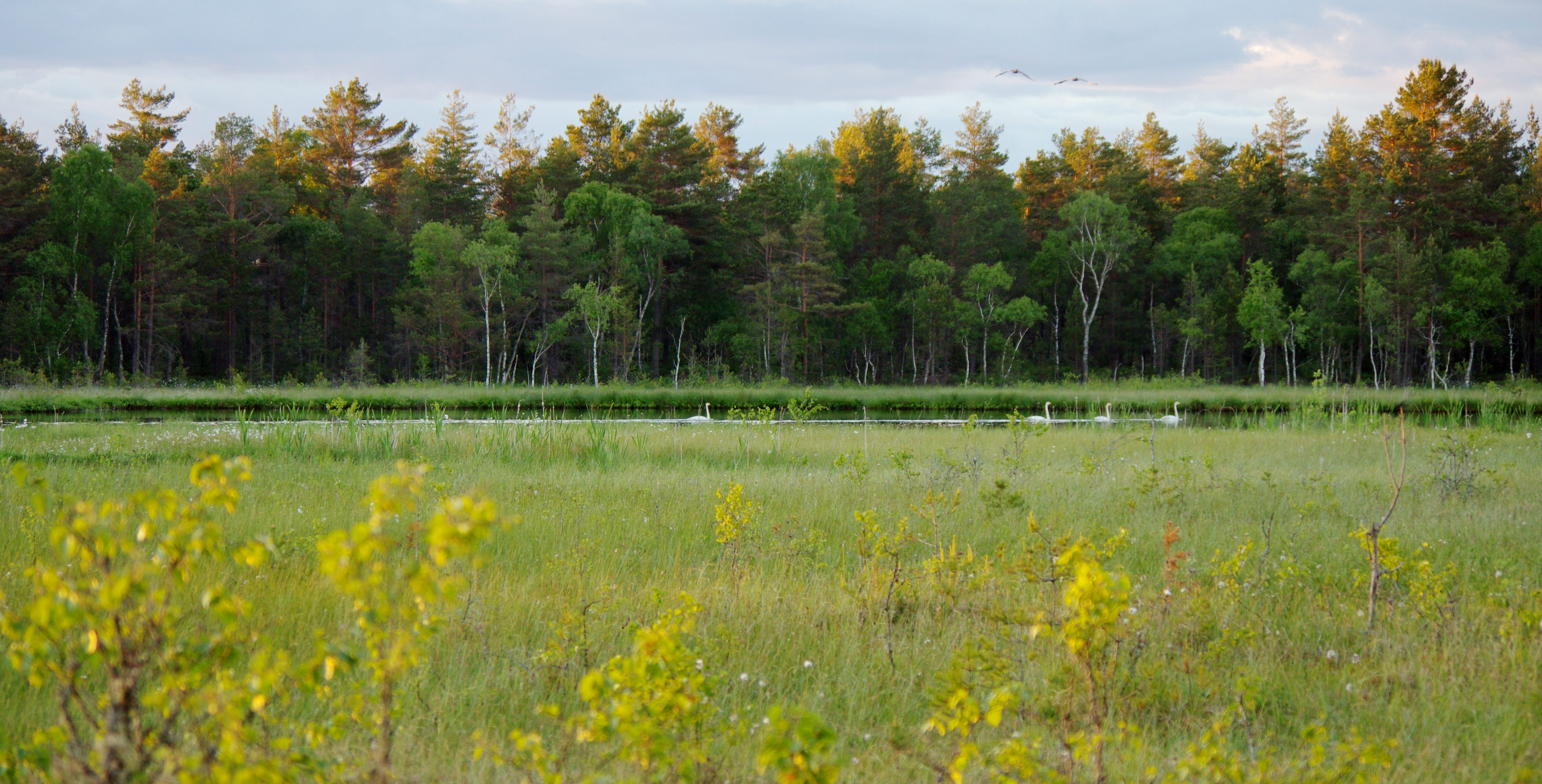 Tovarpasjön: Lake in Västergötland Sweden